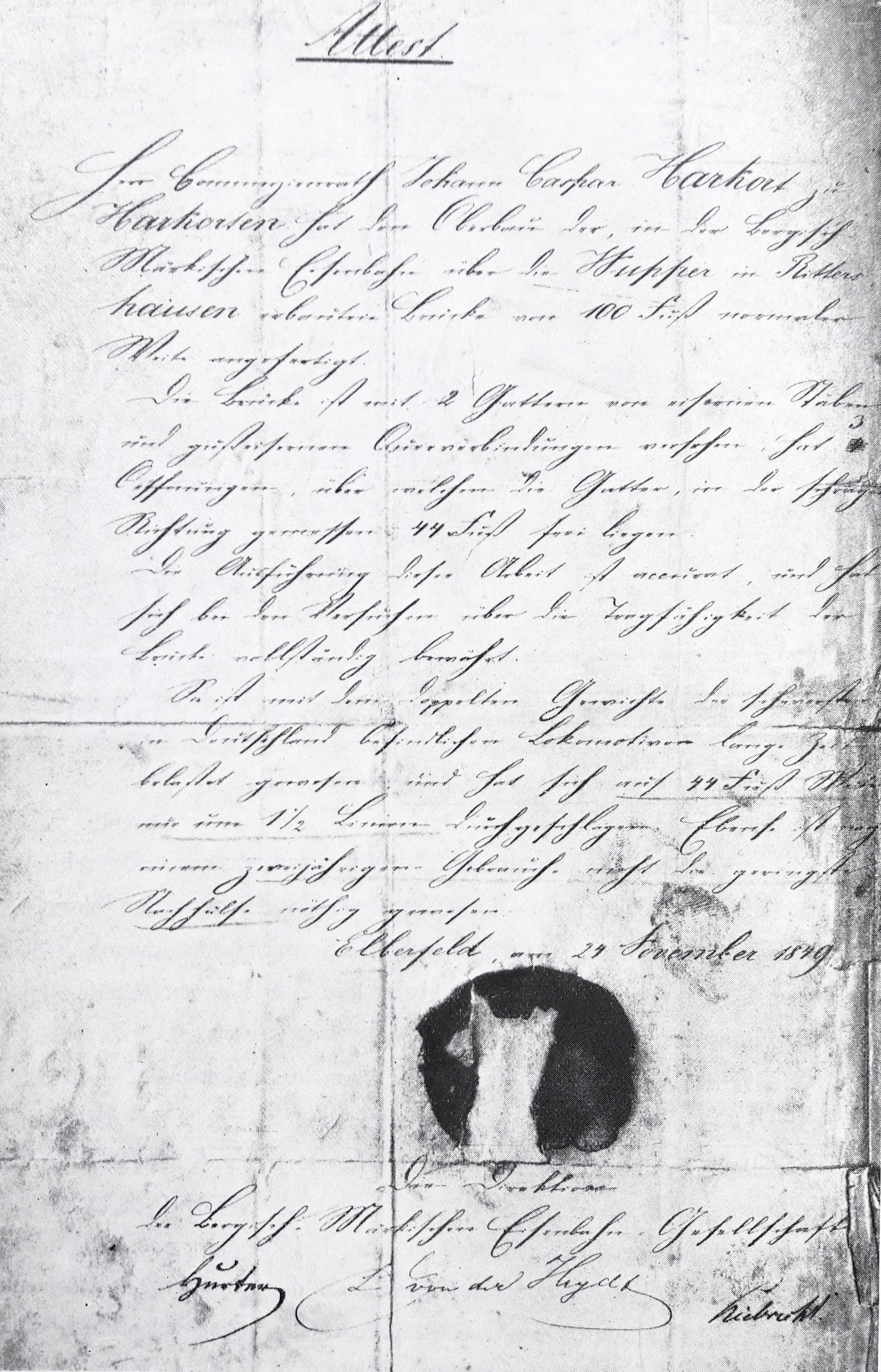 Attest Brückenlieferung 1847 durch Johann Caspar Harkort V.